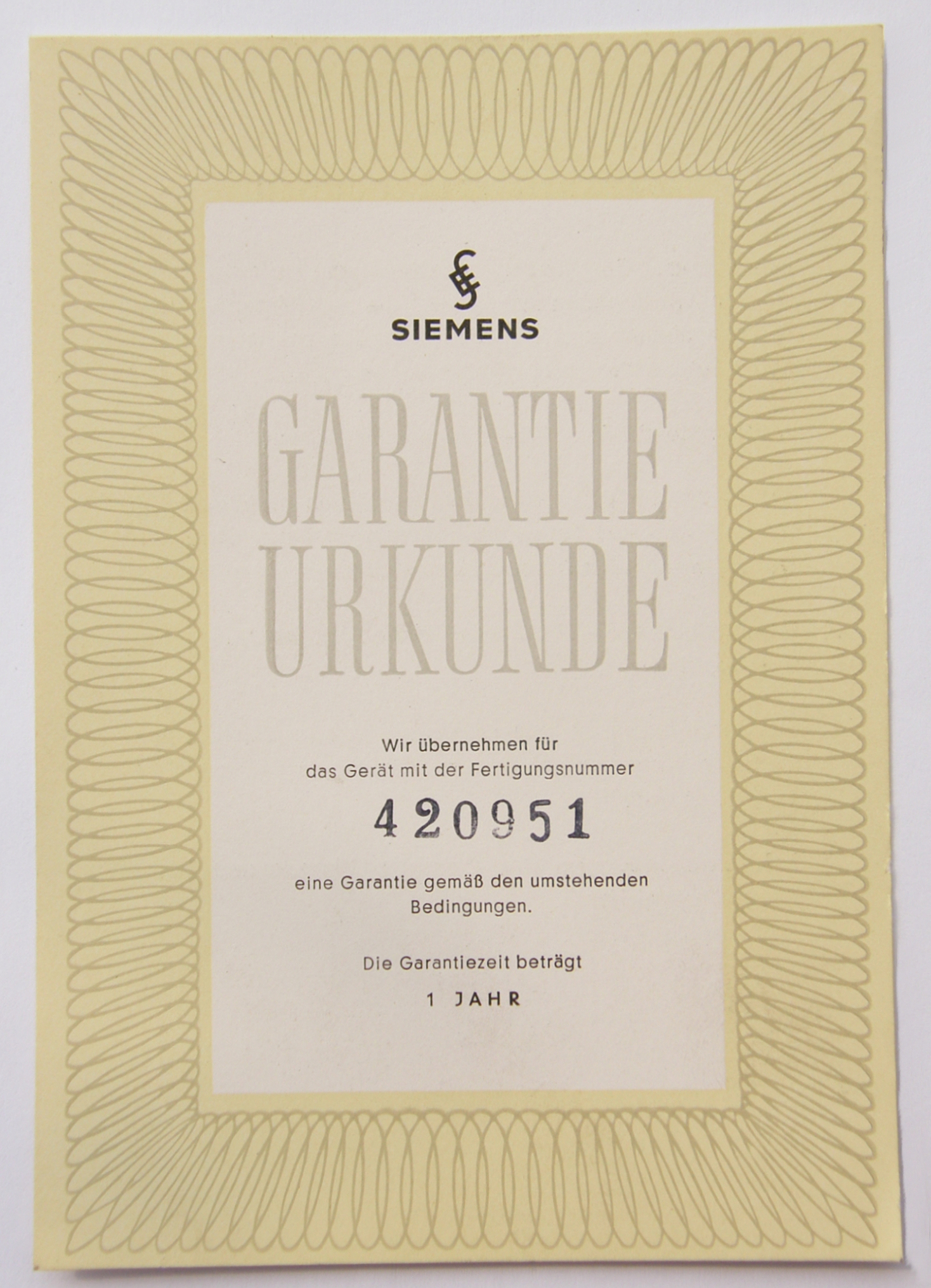 Warranty-paper